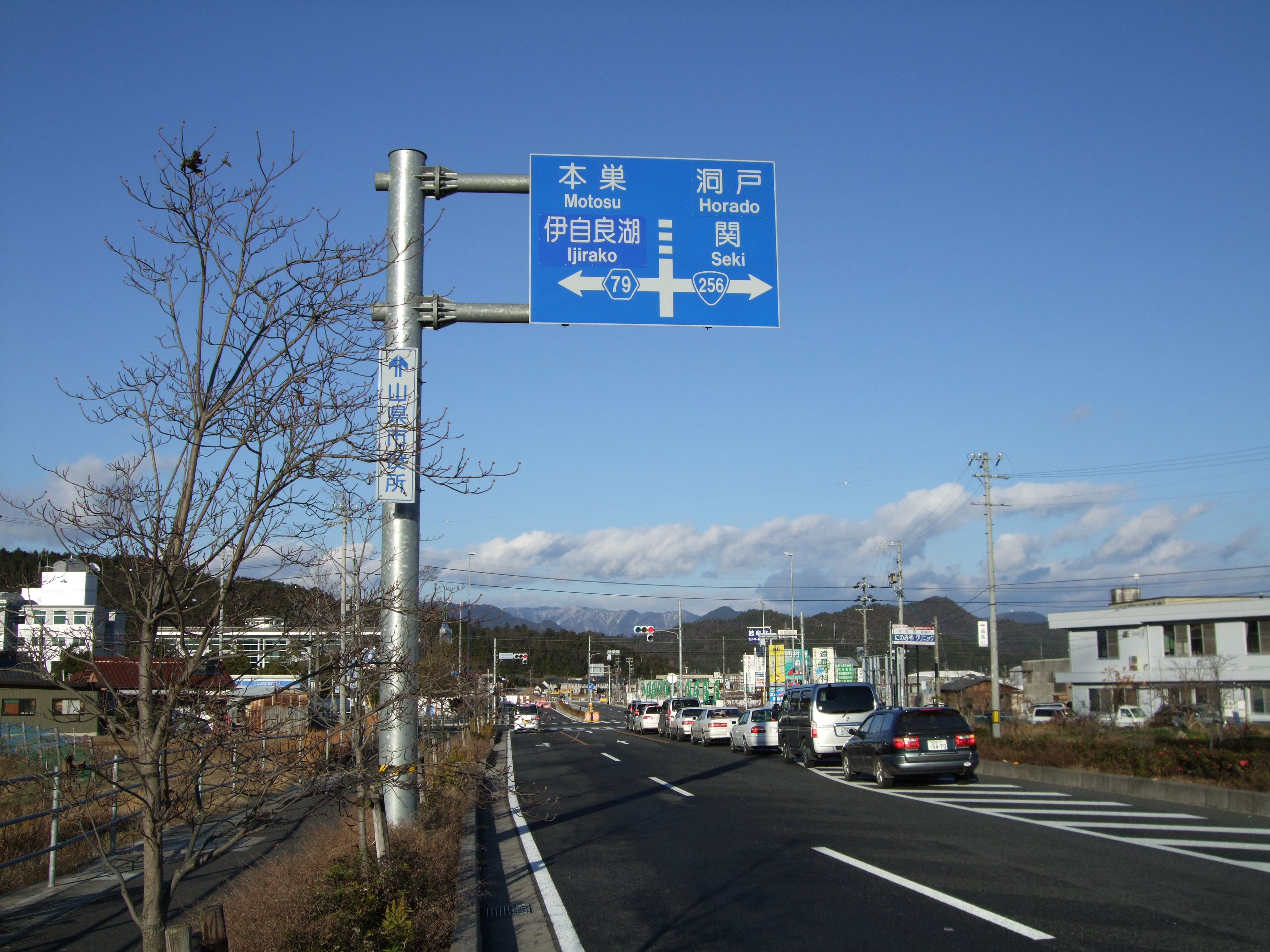 Takatomi-bypass on R256 in Gifu, Japan